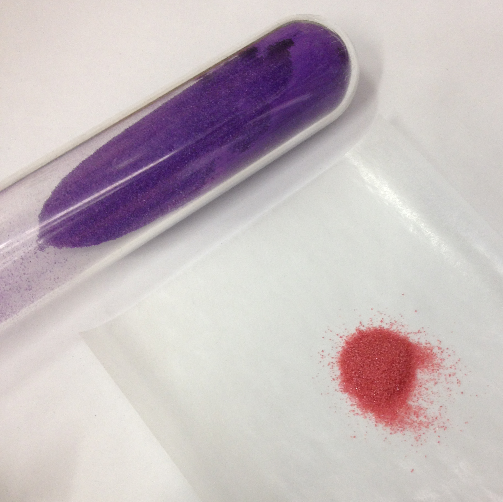 Comparison of Cobalt(II) acetate (left, in a Schlenk tube after drying at high vacuum and 100 °C for several hours) and cobalt(II) acetate tetrahydrate (right).